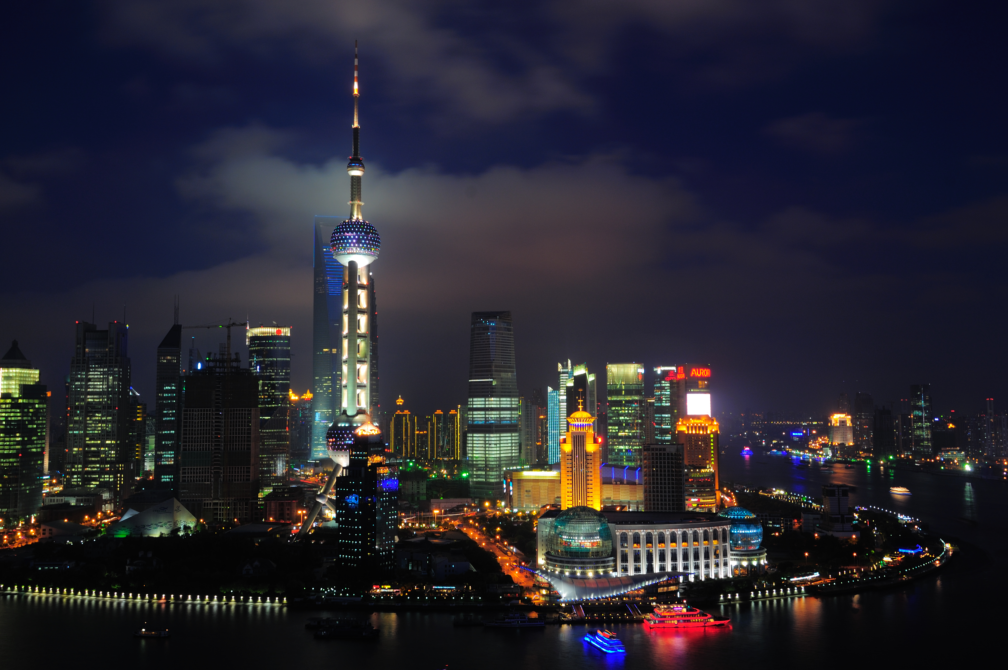 The skyline of Shanghai, China.